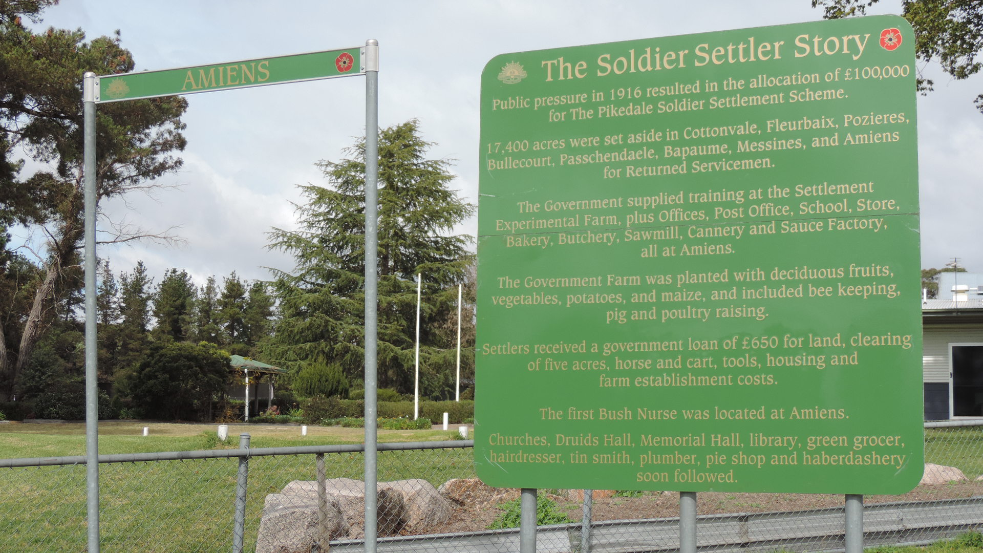 Pikedale soldier settlement information board, Amiens, 2015